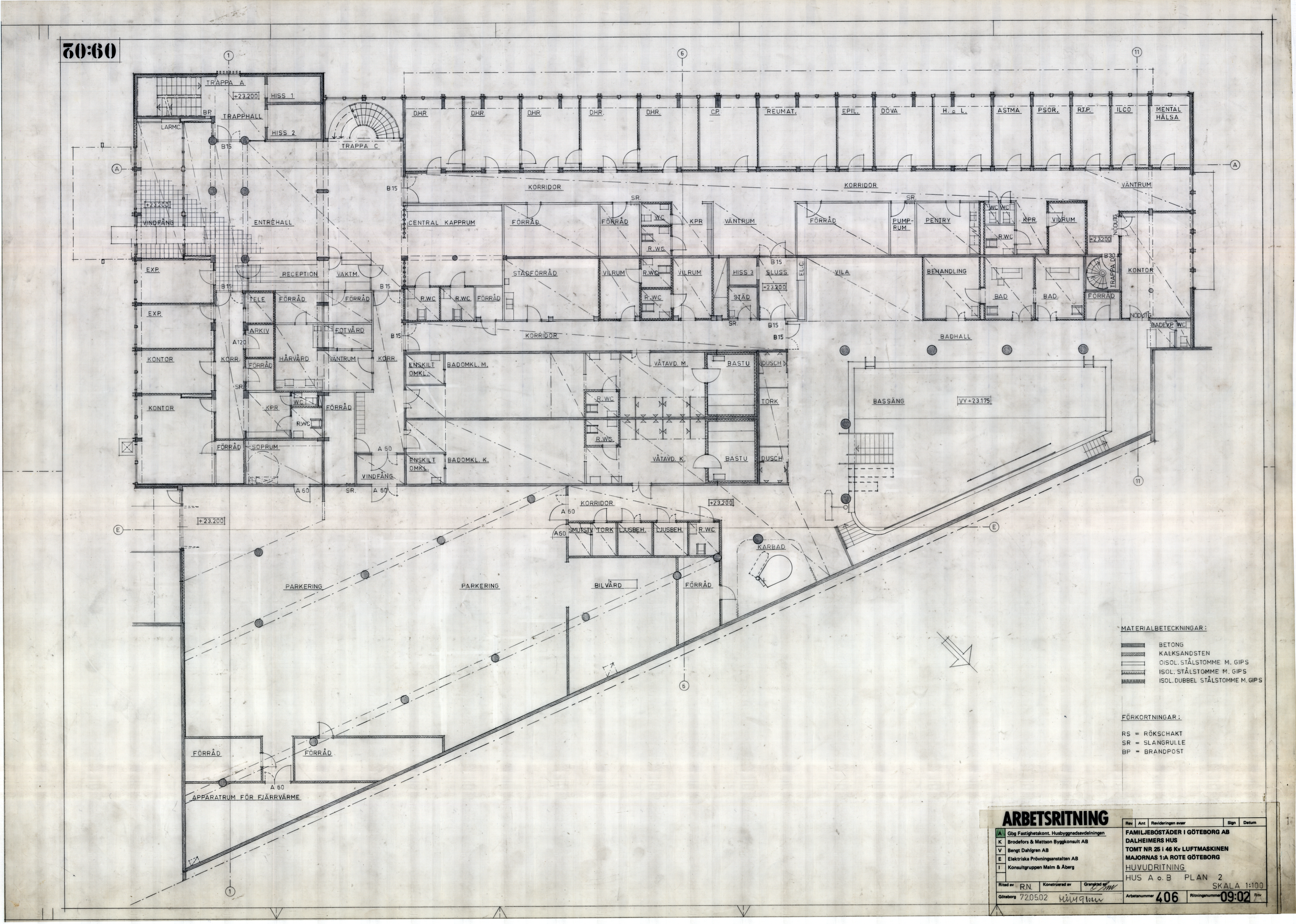 Blueprint for Dalheimers hus, Gothenburg, Sweden. Scanned by Regionarkivet.